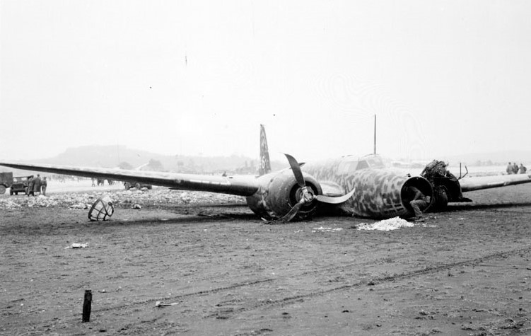 Wreckage of Giretsu Kuteitai plane that crashed on Yontan Field